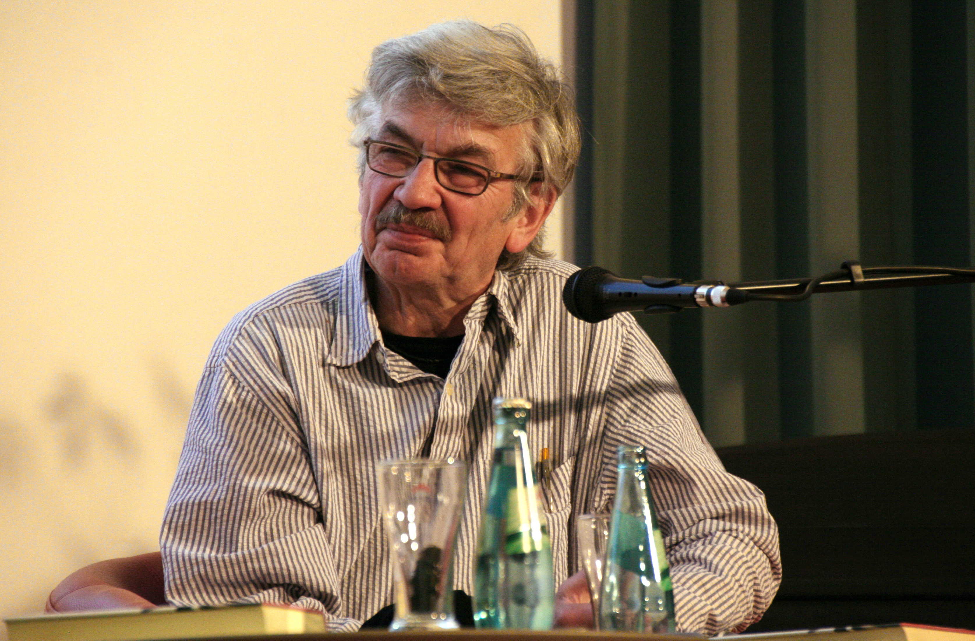 Christoph Hein during a reading in Chemnitz, Germany in April 2012.